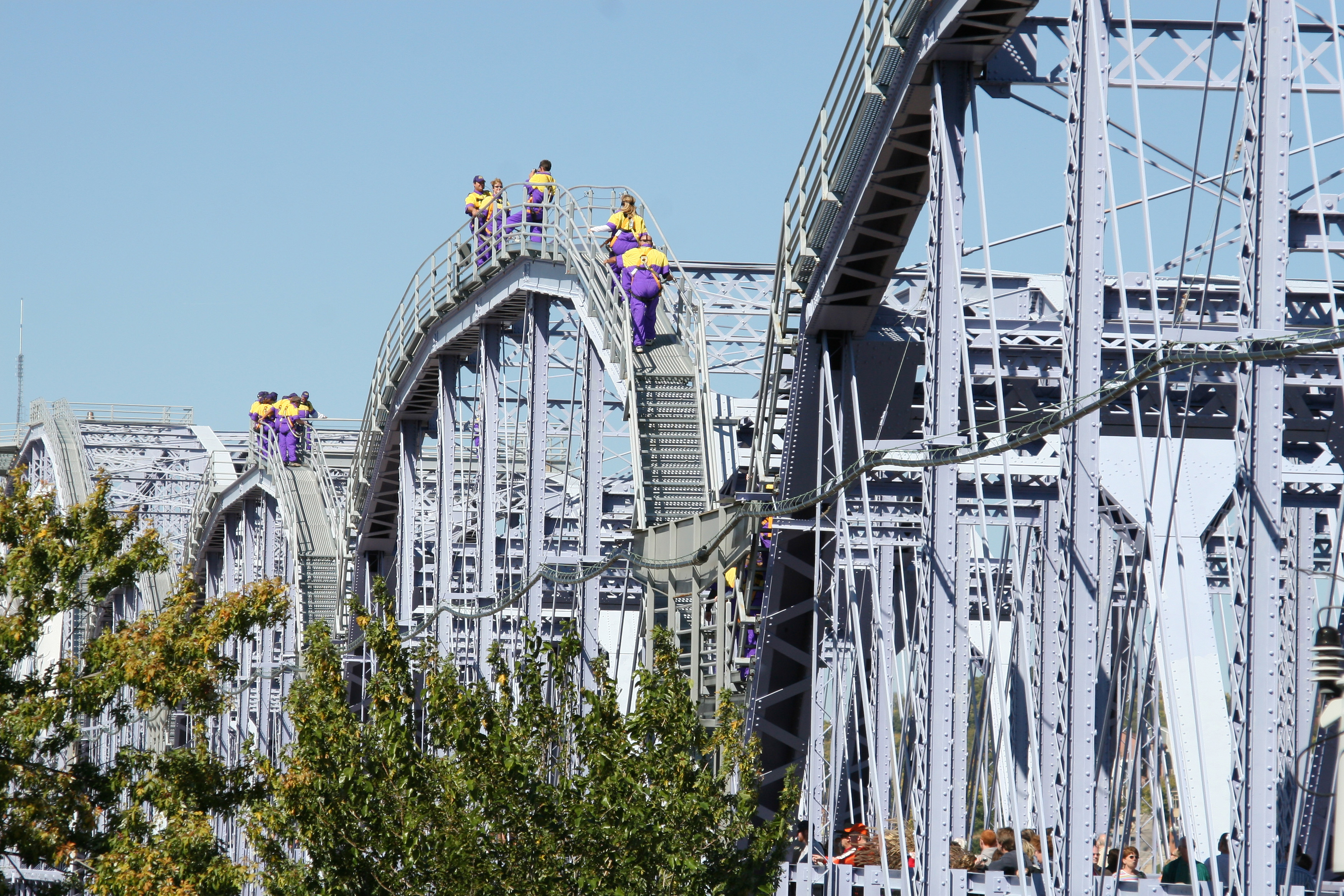 Purple clad people cross atop the Purple People Bridge.